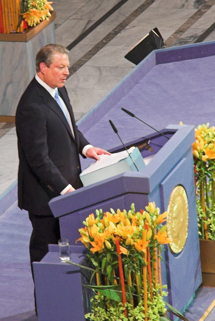 Al Gore recieving the Nobel Peace Price 2007